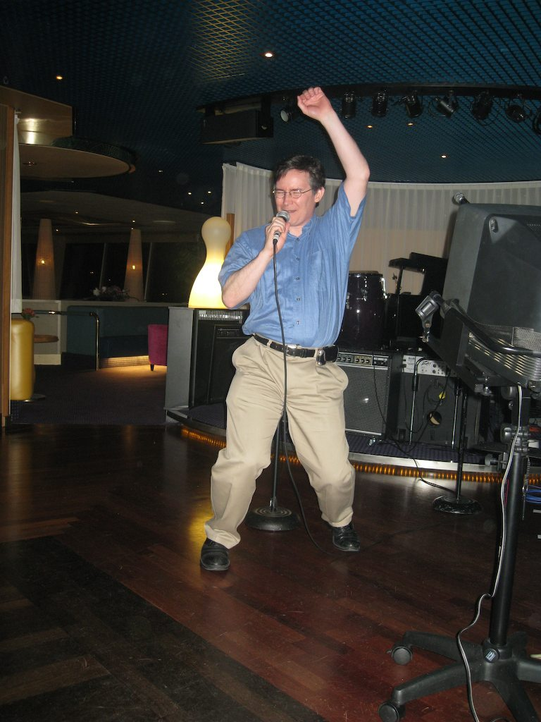 All this, and he can edit Scientific American articles too! This photo was taken on February 1, 2008 in San Miguel de Cozumel, Quintana Roo, Mexico